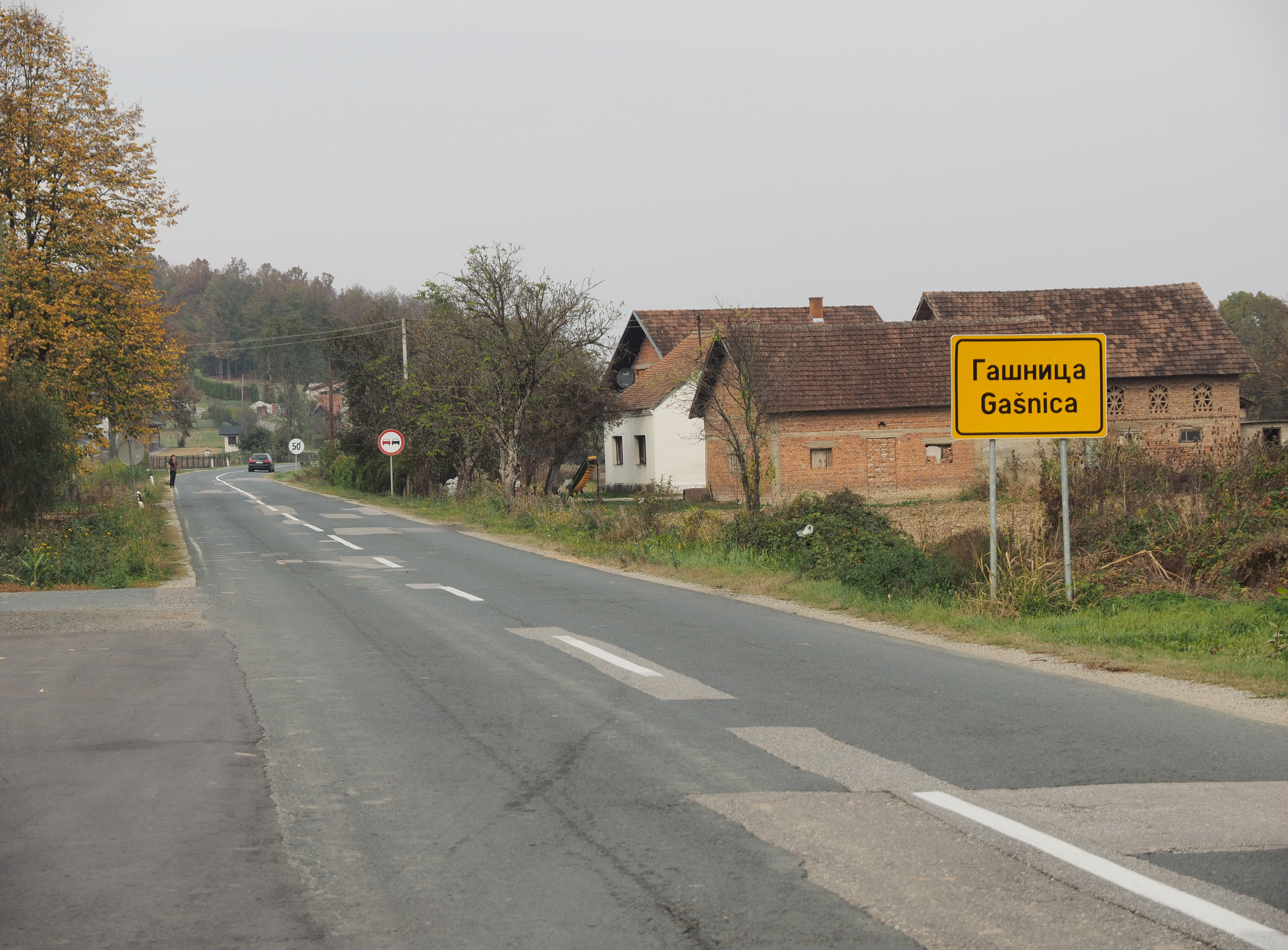 Gašnica a village in the municipality of Gradiška, Republika Srpska, Bosnia and Herzegovina Srpski (latinica): Gašnica, opština Gradiška, Republika Srpska.